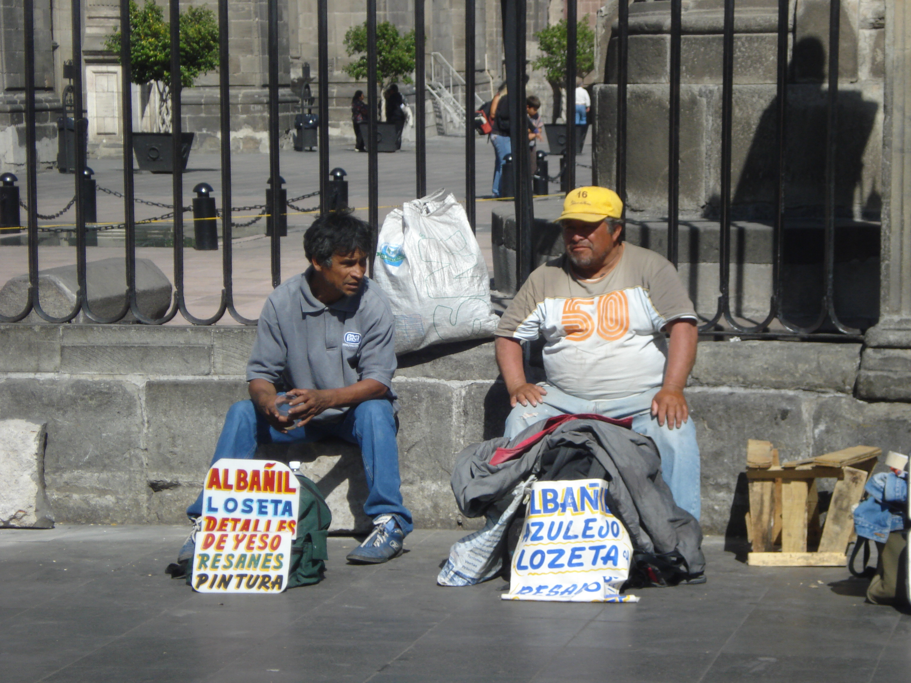 Two unemployed construction workers wait for jobs on the side of the Mexico City Metropolitan Cathedral. The photo is from Flickr.